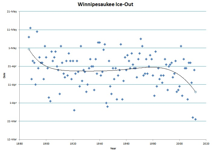 A chart detailing every Ice-Out date on Lake Winnipesaukee. There is also a trend line included to better see how the average date has moved over decades.